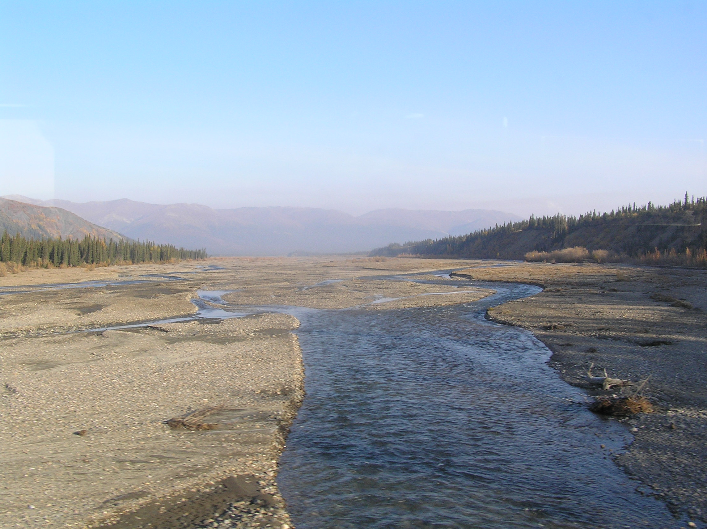 Teklanika River, Alaska